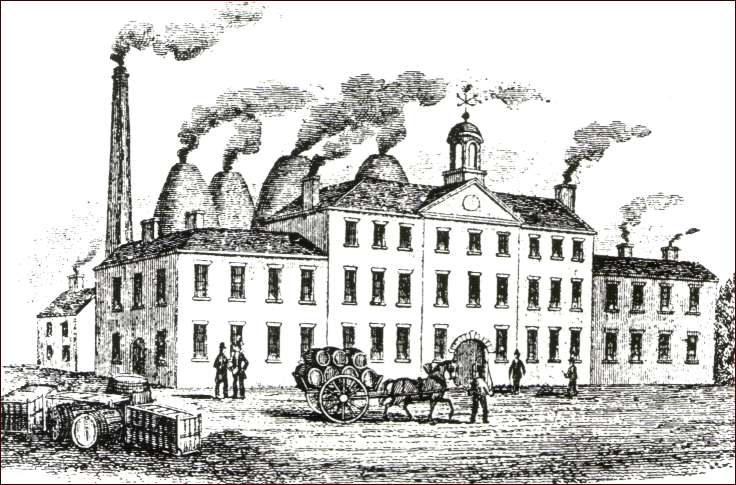 Print of the Greengates pottery, North Staffordshire, circa 1780